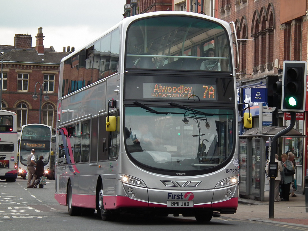 First West Yorkshire, Volvo B5L Hybrid, 39222 BP11 JWD